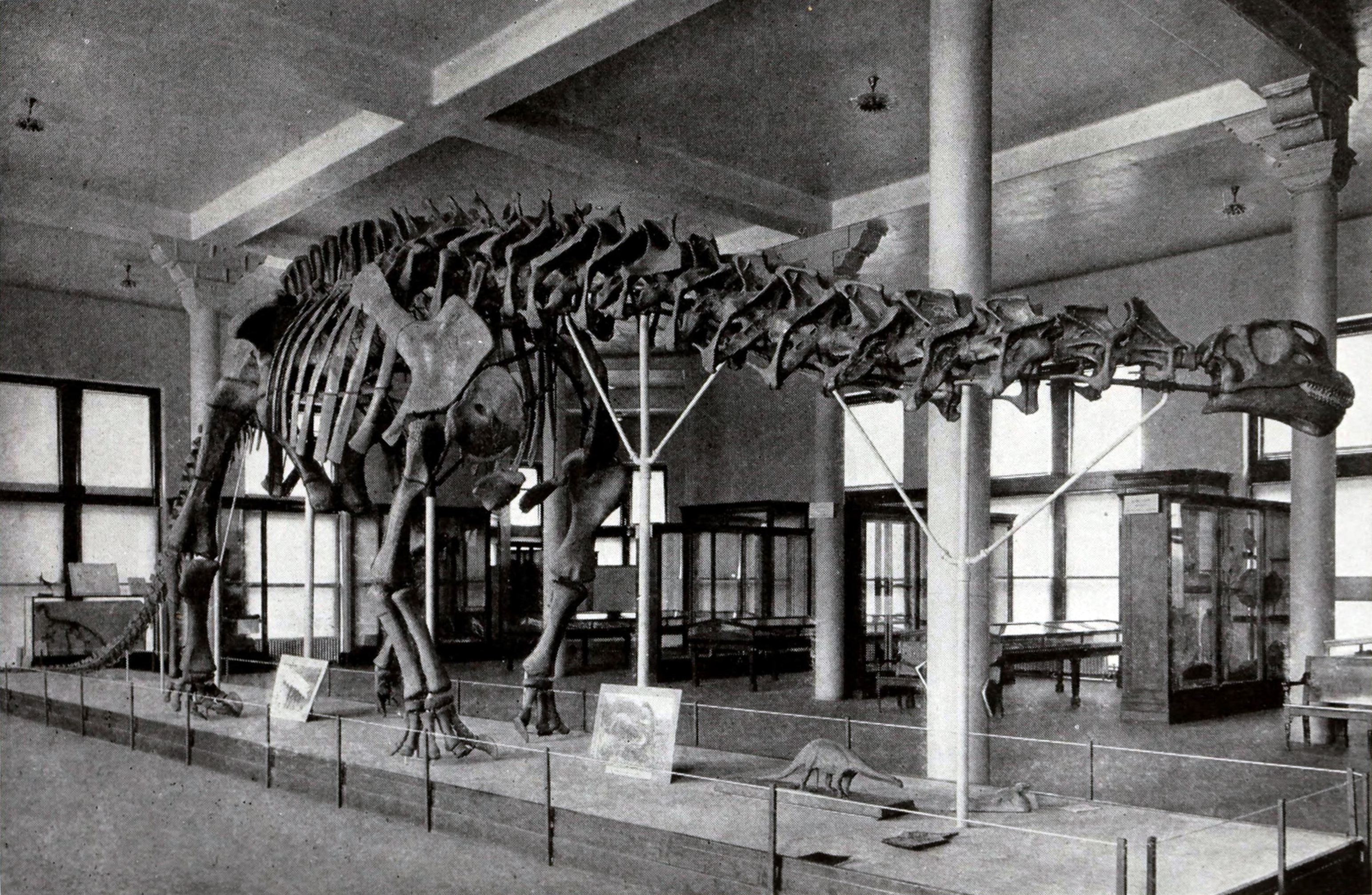 Mounted skeleton of Apatosaurus excelsus (formerly Brontosaurus) with incorrectly referred Camarasourus skull, in the American Museum of Natural History.